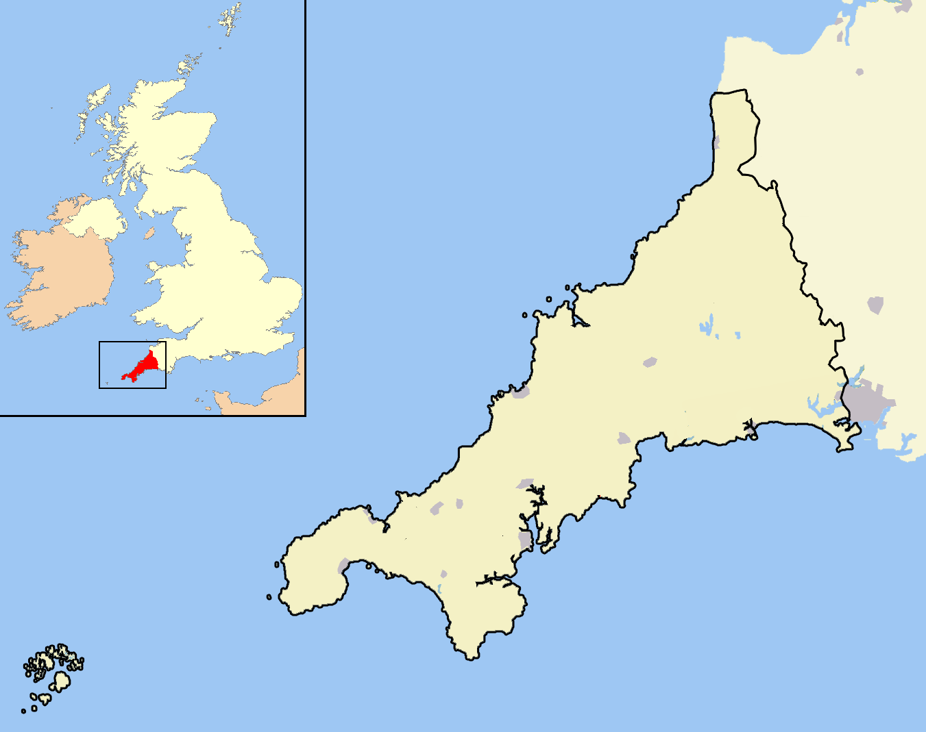 A map of the county of Cornwall, England, United Kingdom, showing the post-2009 district boundaries.